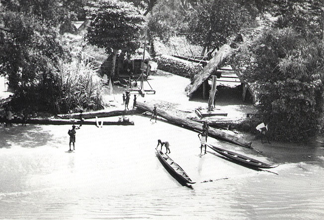 Dugouts (canoes) at the Suriname River.